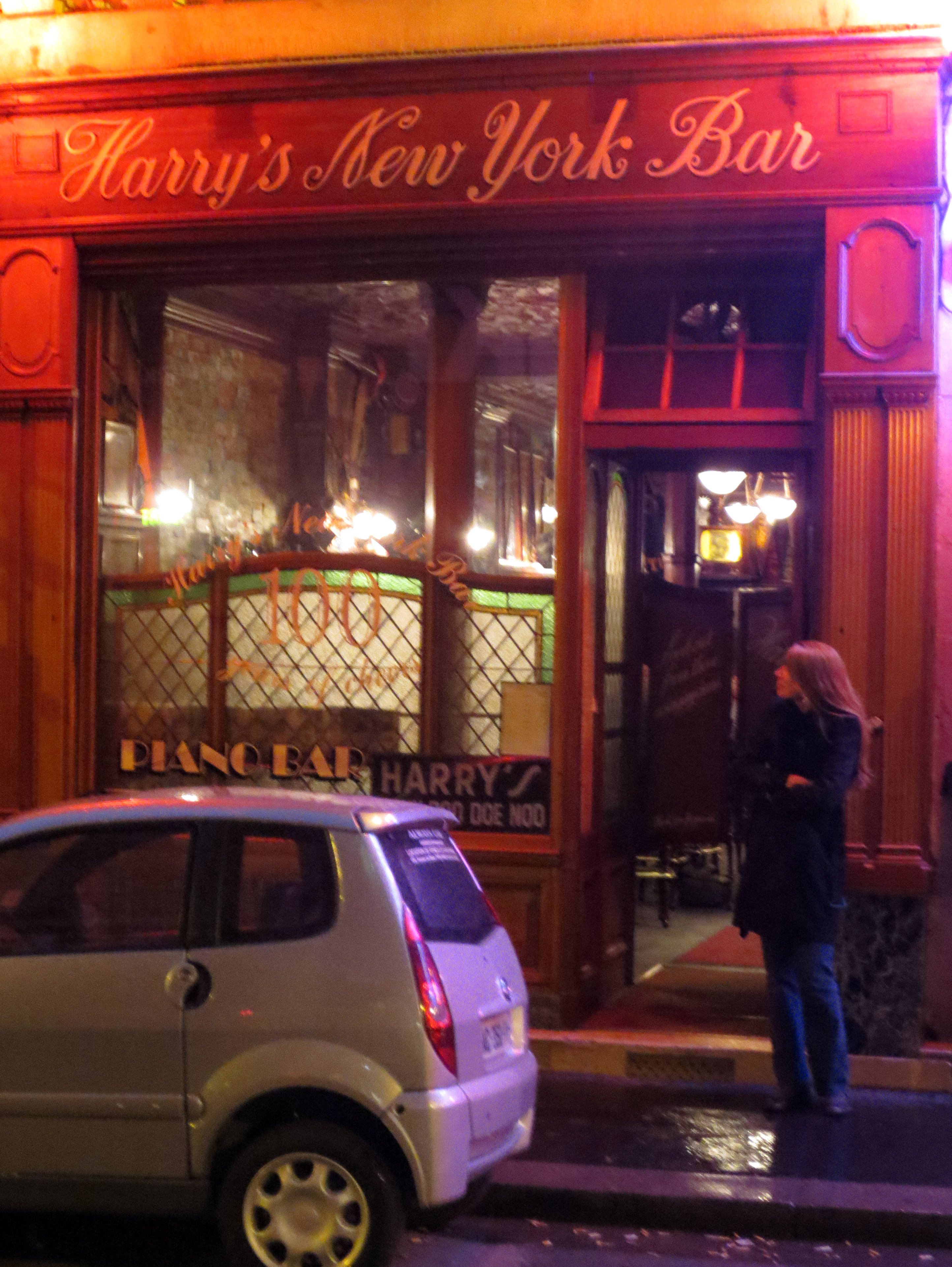 Harry's New York Bar, Paris.